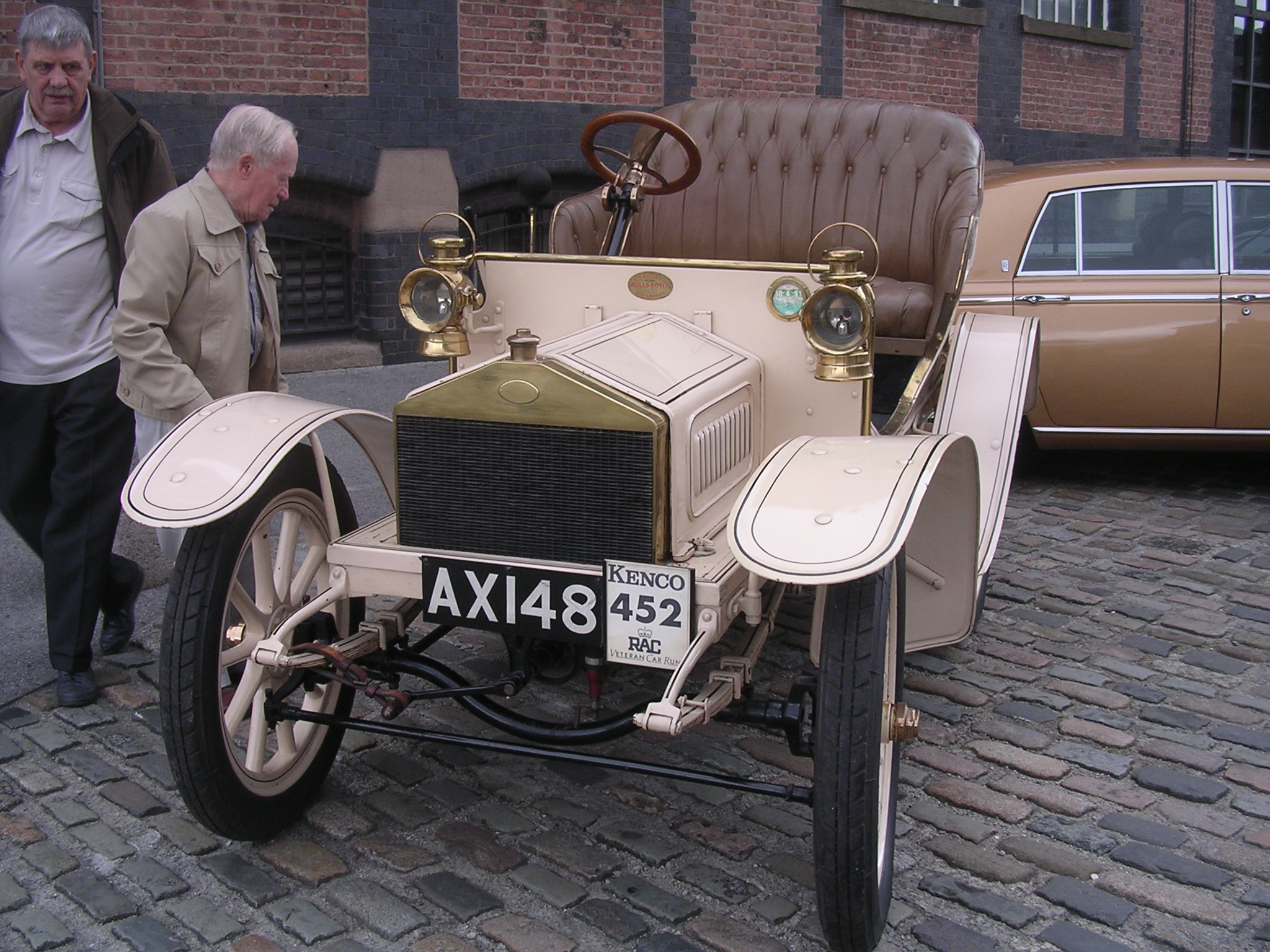 A 1905 model Rolls Royce, as featured in the Museum of Science and Industry in Manchester. This car, registration AX148, was built in the original Manchester factory, and is the oldest such vehicle on public display.